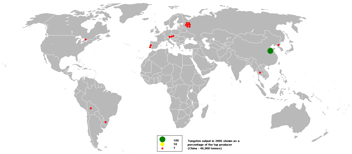 This bubble map shows the global distribution of mined output of tungsten in 2005 as a percentage of the the top producer (China - 46,900 tonnes). This map is consistent with incomplete set of data too as long as the top producer is known. It resolves the accessibility issues faced by colour-coded maps that may not be properly rendered in old computer screens. Data was extracted on 29th May 2007. Source - Based on :Image:BlankMap-World.png